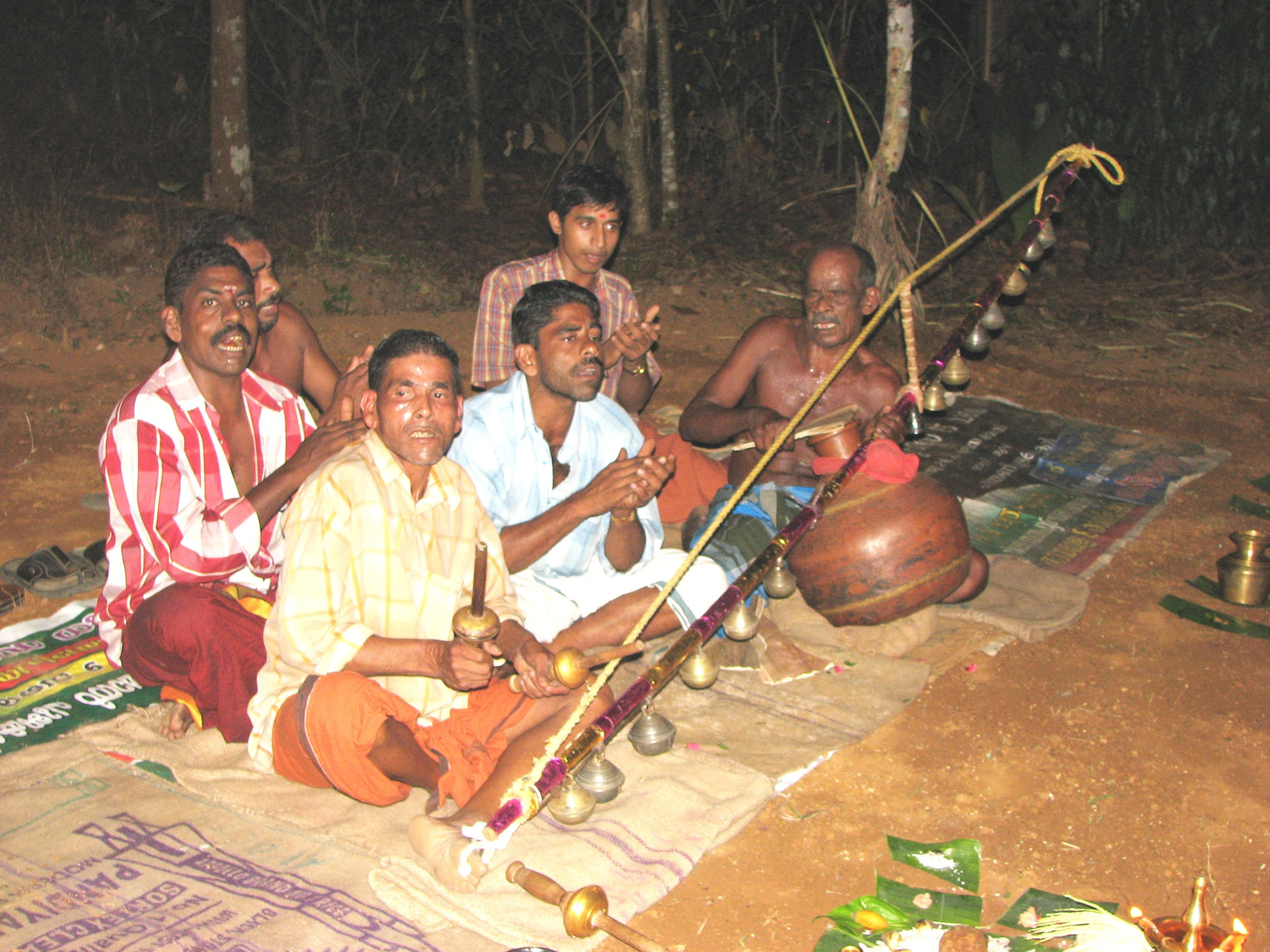 Traditional Villupattu (Bow Song), at Ponkunnam, Kottayam, Kerala, India.